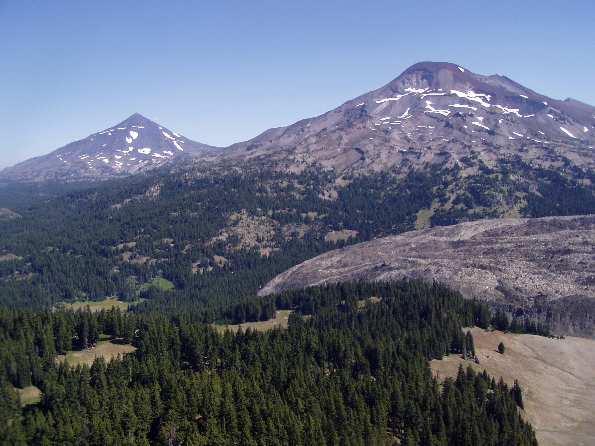 An aerial view over the Three Sisters Wilderness, showing Middle Sister (left) and South Sister in the Cascade Range, central Oregon, United States